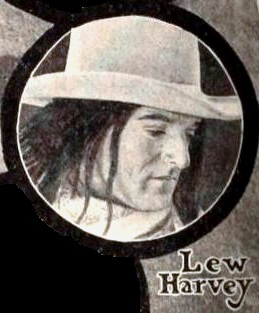 Actor Lew Harvey, cropped from an advertisement for the American western film The Half Breed (1922), on page 12 of the July 30, 1921 Exhibitors Herald.